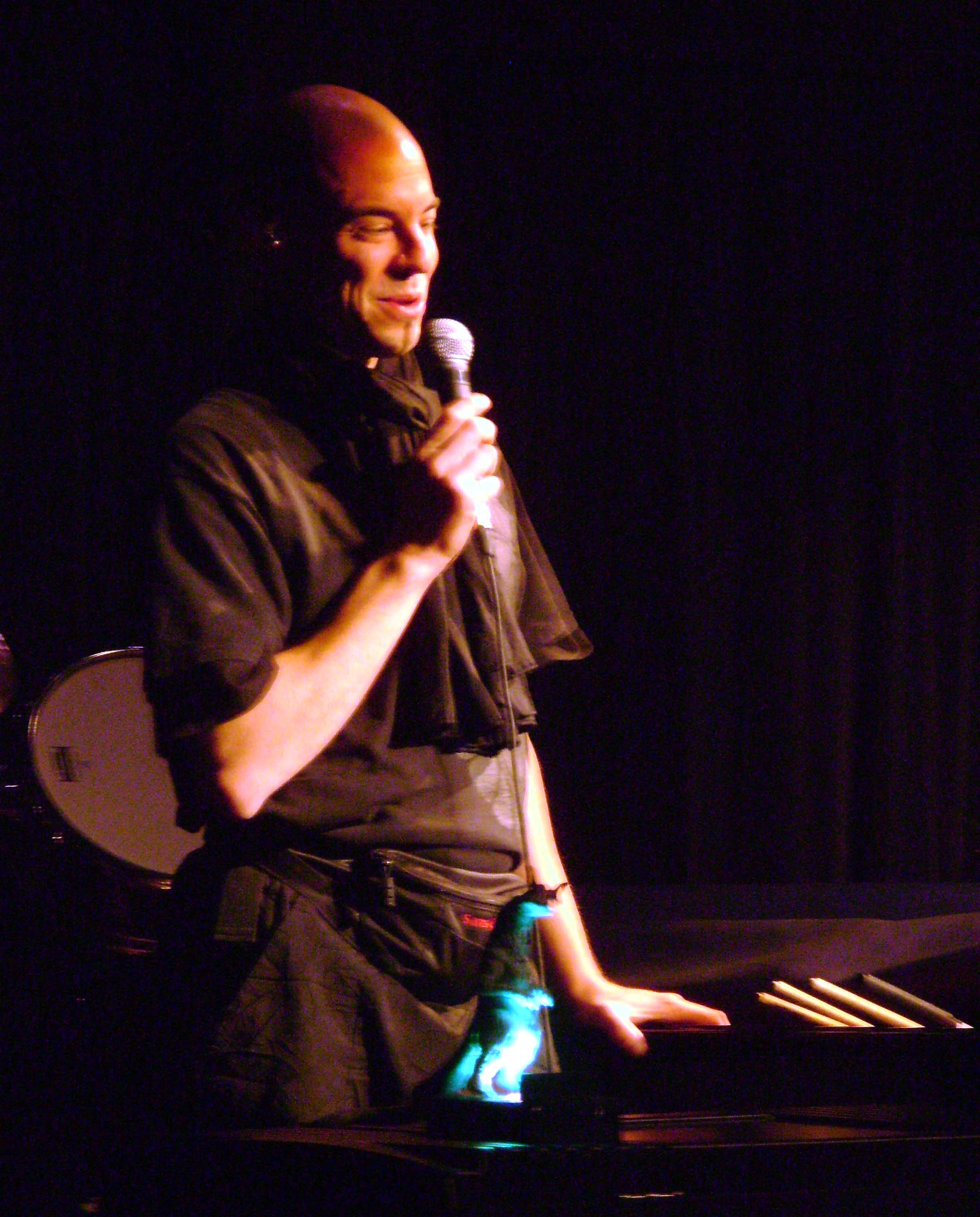 Nik Bärtsch with Ronin, Innsbruck 2008